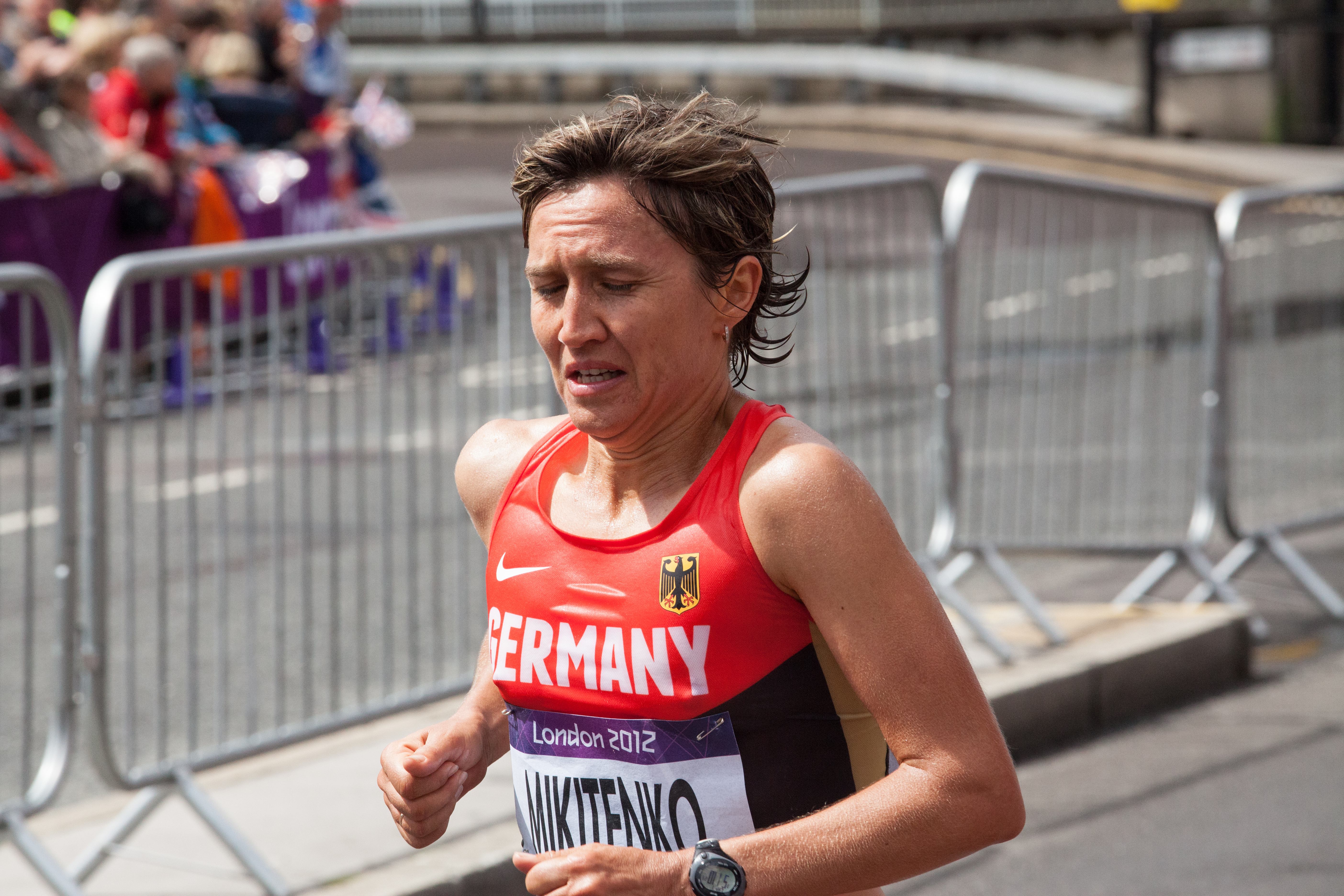 The women's marathon at the 2012 Olympic Games in London was held on the Olympic marathon street course on 5 August 2012.